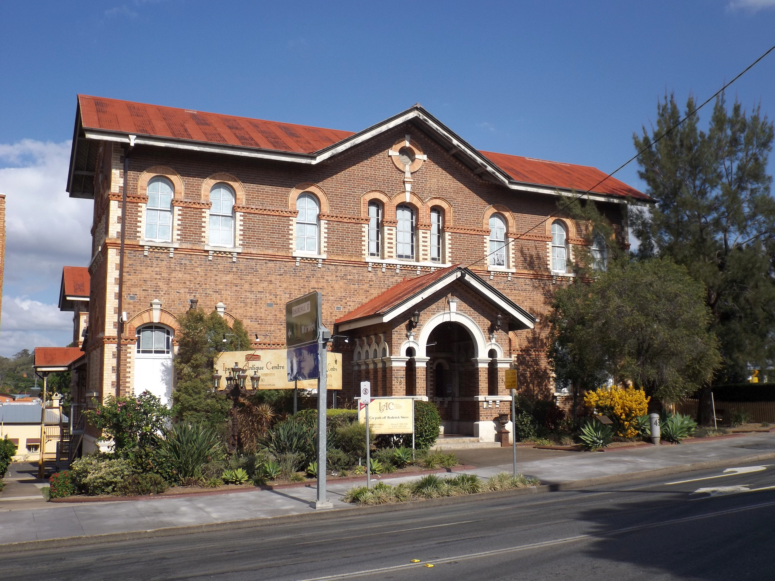 Photo of Uniting Church Central Memorial Hall in Ipswich, Queensland, Australia.